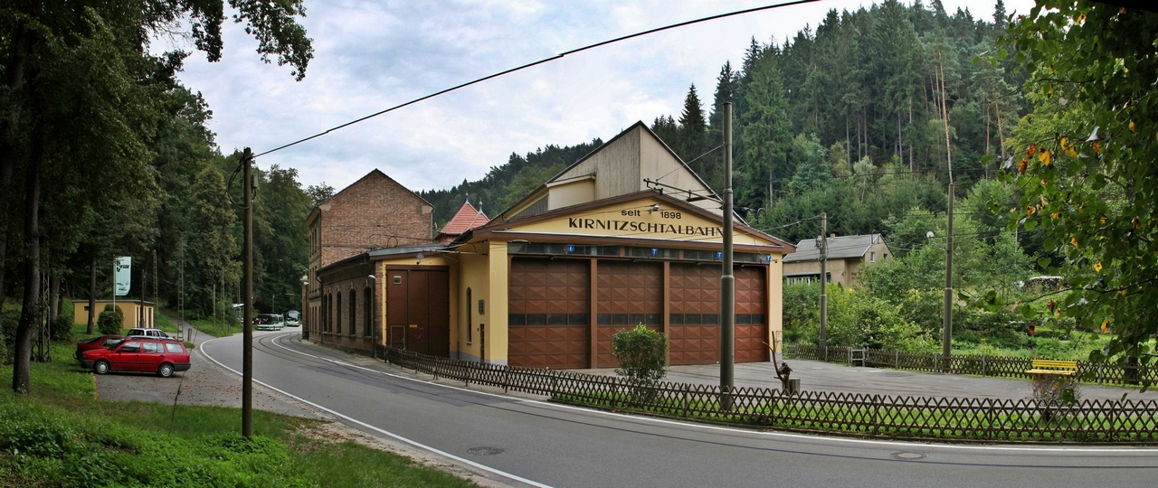 This image shows the depot of the Kirnitzschtal Tramway.